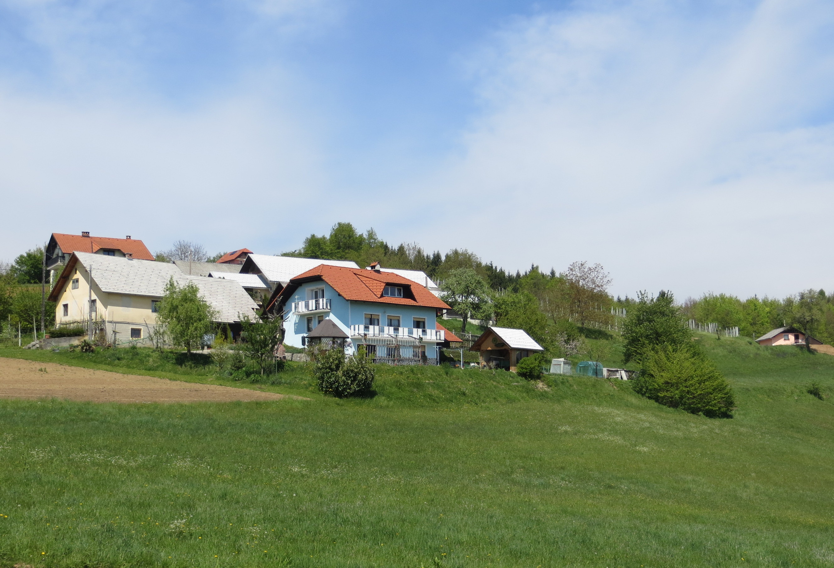 Roje pri Čatežu, Municipality of Trebnje, Slovenia